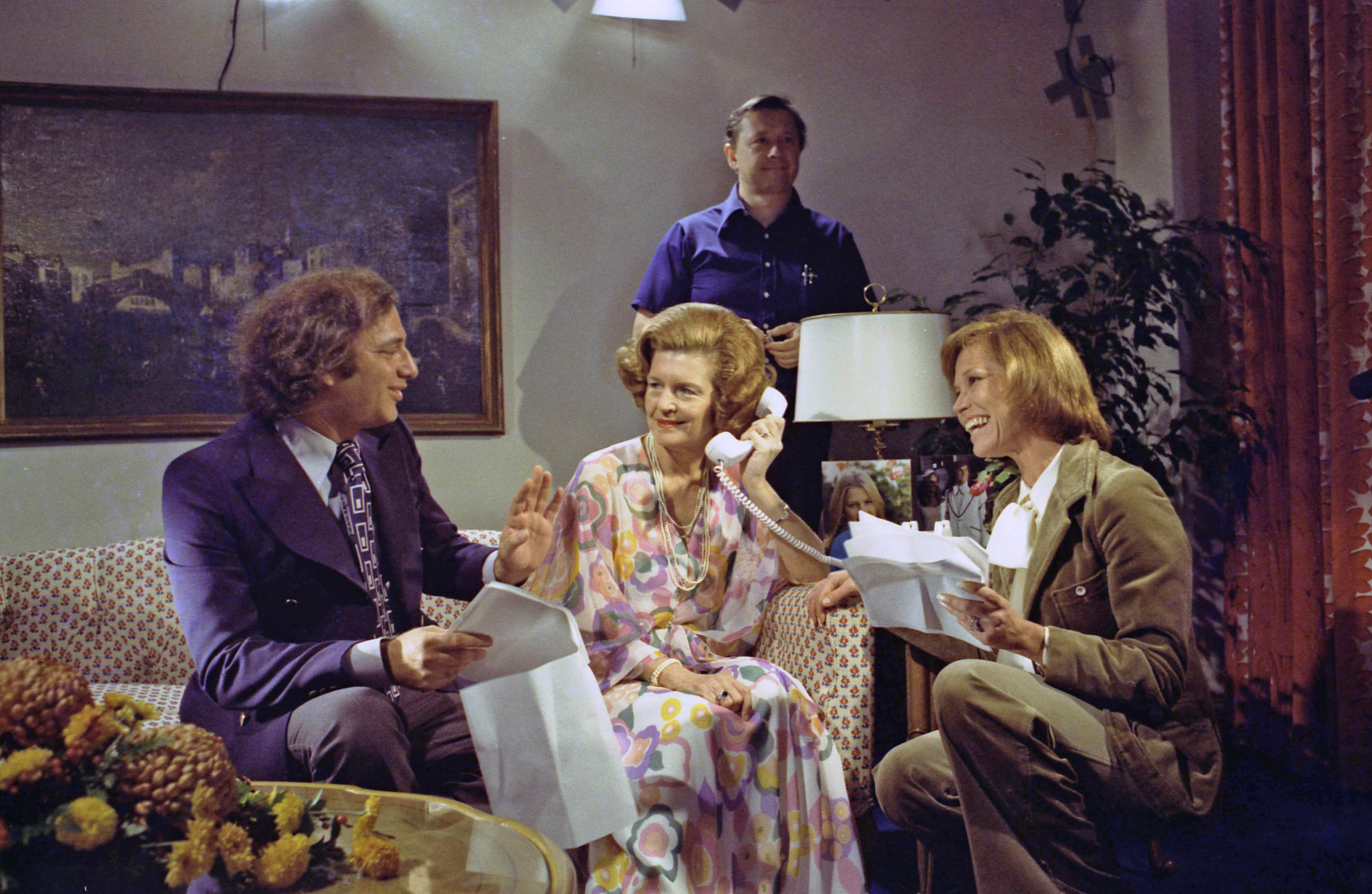 Co-producer Ed Weinberger coaches First Lady Betty Ford and Mary Tyler Moore. Mrs. Ford played herself in this episode which aired on January 10, 1975.